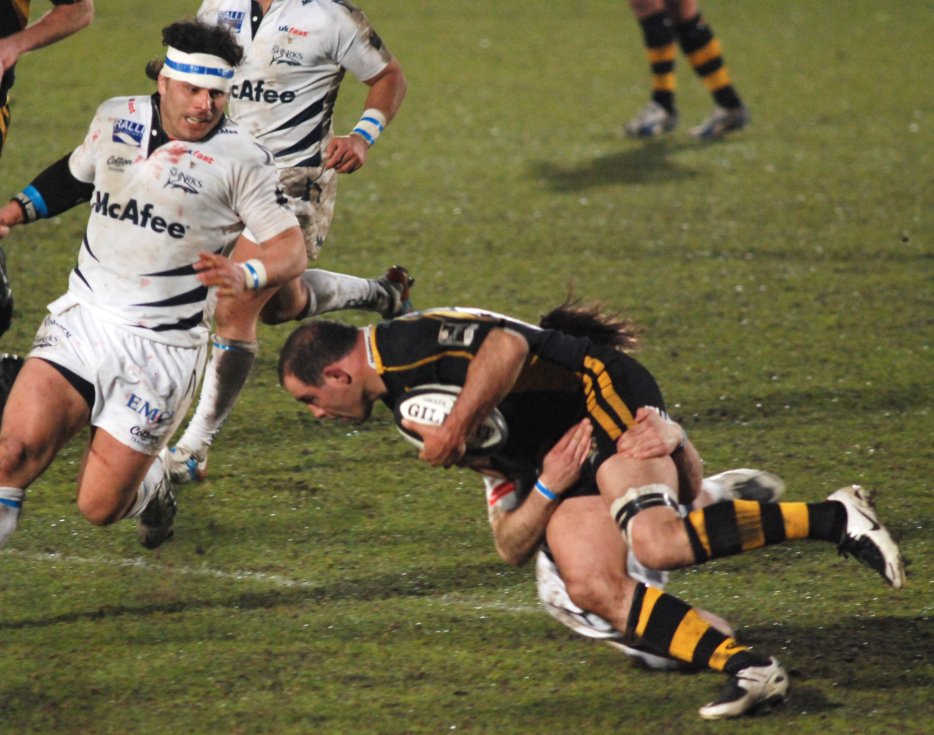 Great game for Raphaël Ibañez with 100% lineout success for . Deserved the applause when he left the field. I had thought in previous games he was not that engaged and doubted whether he should be first choice in today's team.